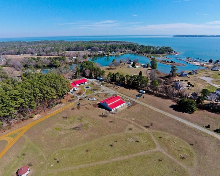 Aerial image of the Deltaville Maritime Museum, Deltaville, Virginia, looking out over Jackson Creek and the Chesapeake Bay